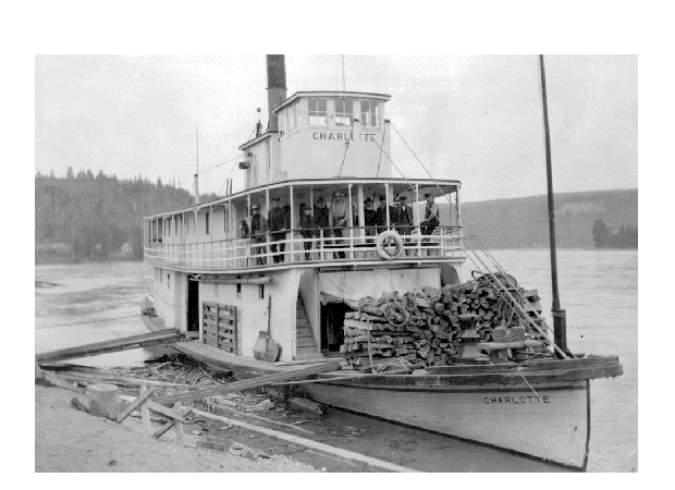 Photo taken 1898 #B-01206